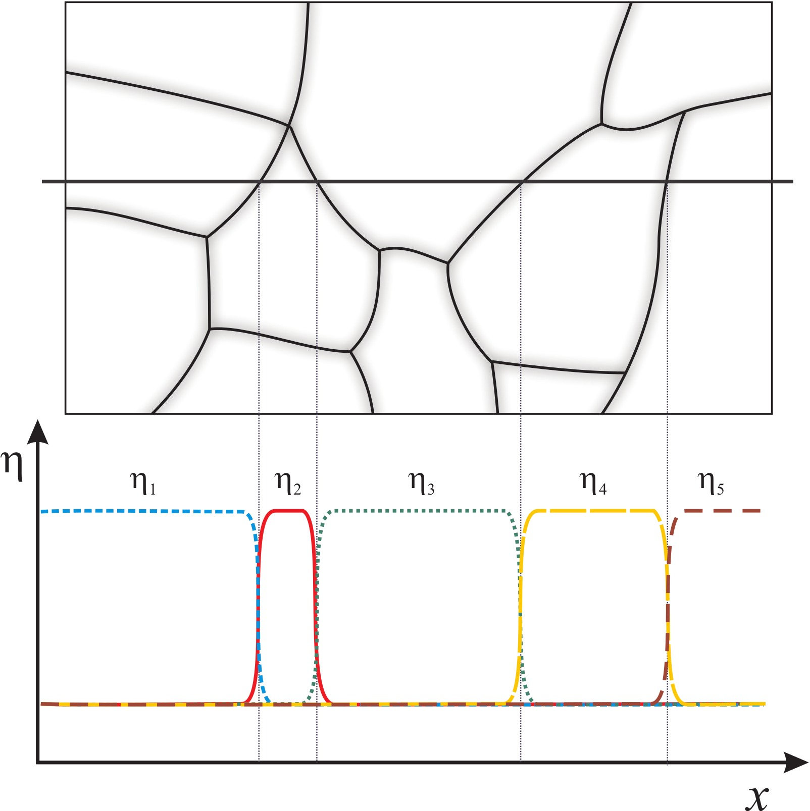 Microstructure of a polycrystalline material and profile of order parameters in phase field simulation.